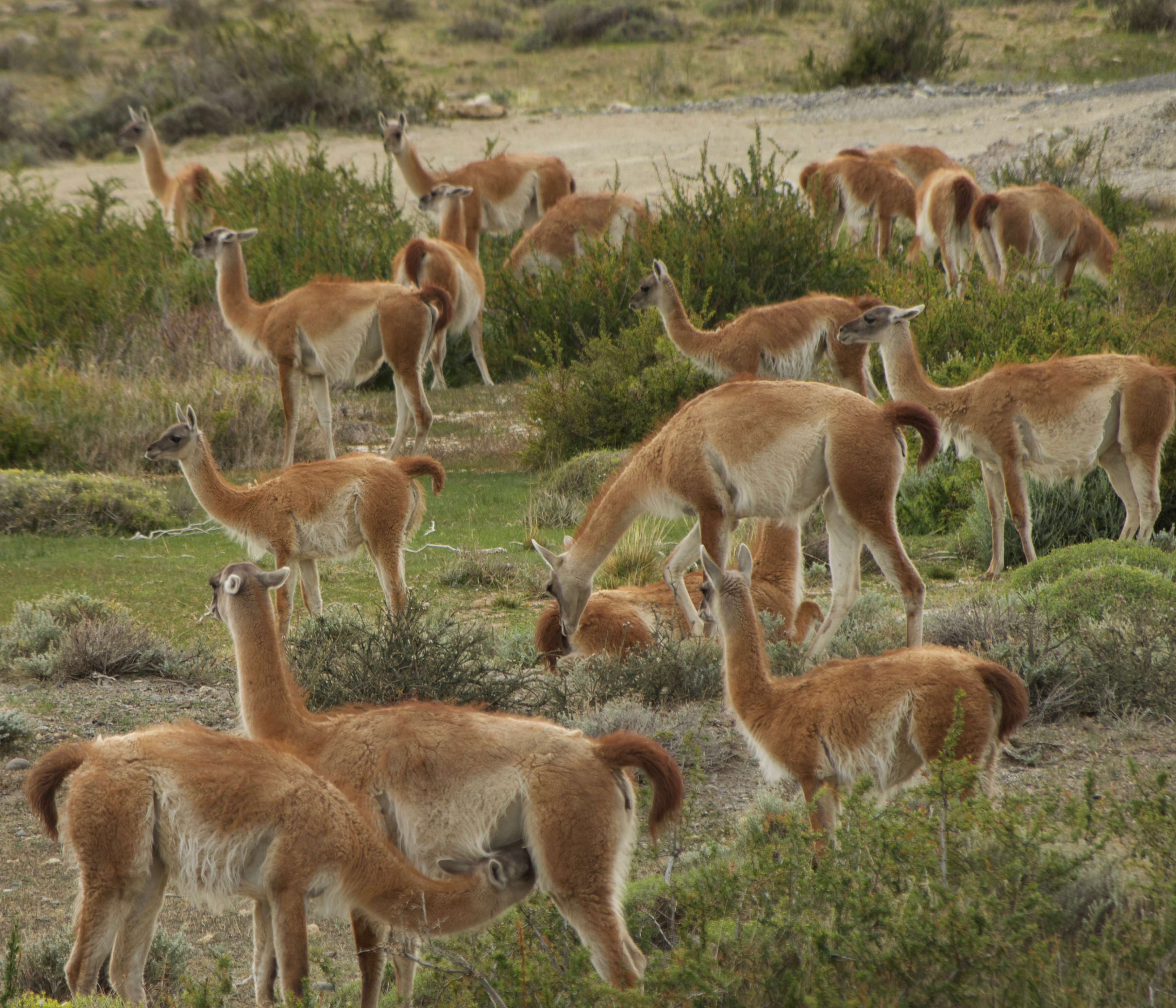 Lama Guanicoe in Torres del Paine, Chile